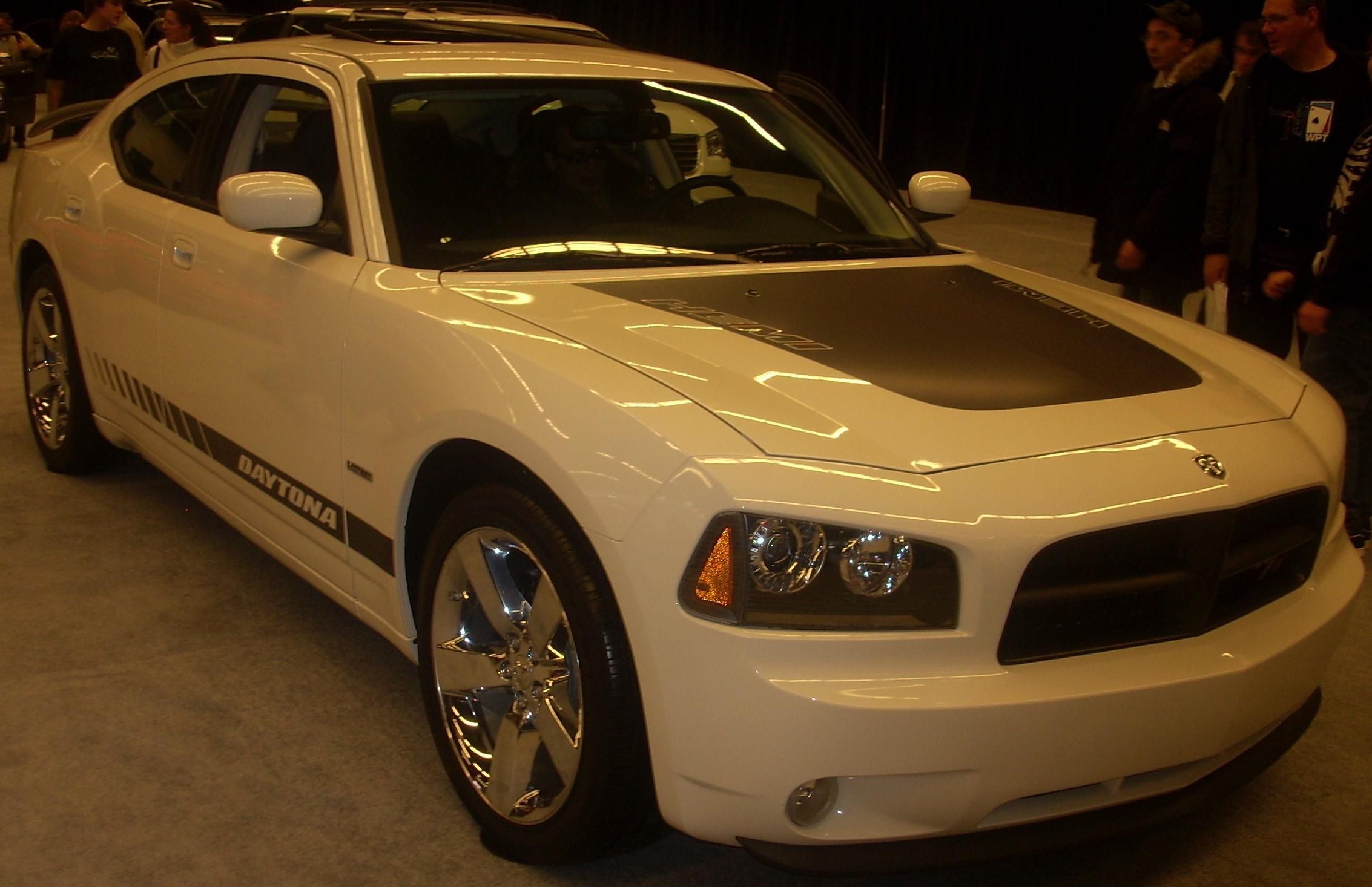 2008 Dodge Charger Daytona photographed at the 2009 Montreal International Auto Show.